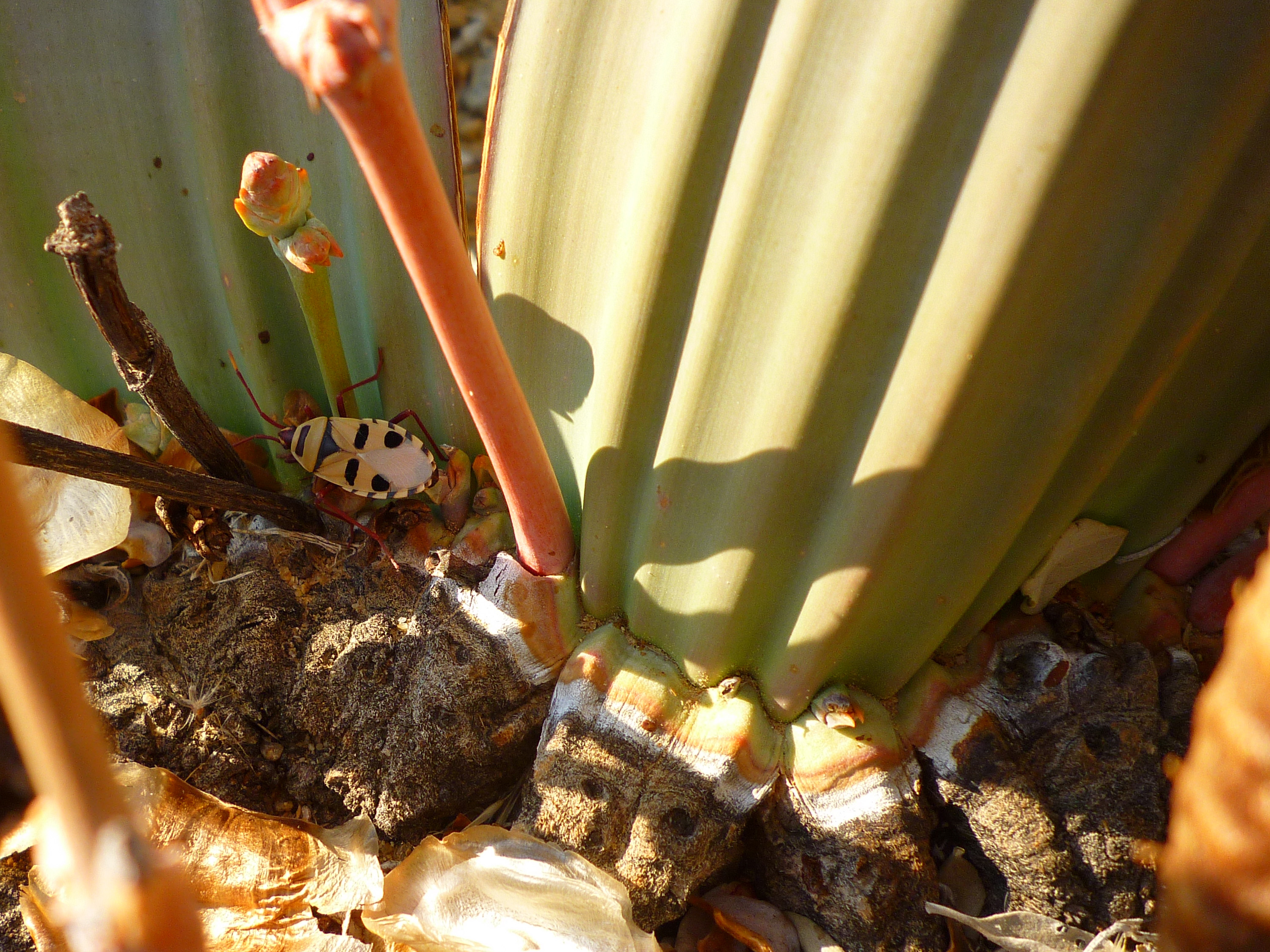 Probergrothius angolensis on Welwitschia mirabilis, in the petrified forest of Korixas (Namibia).